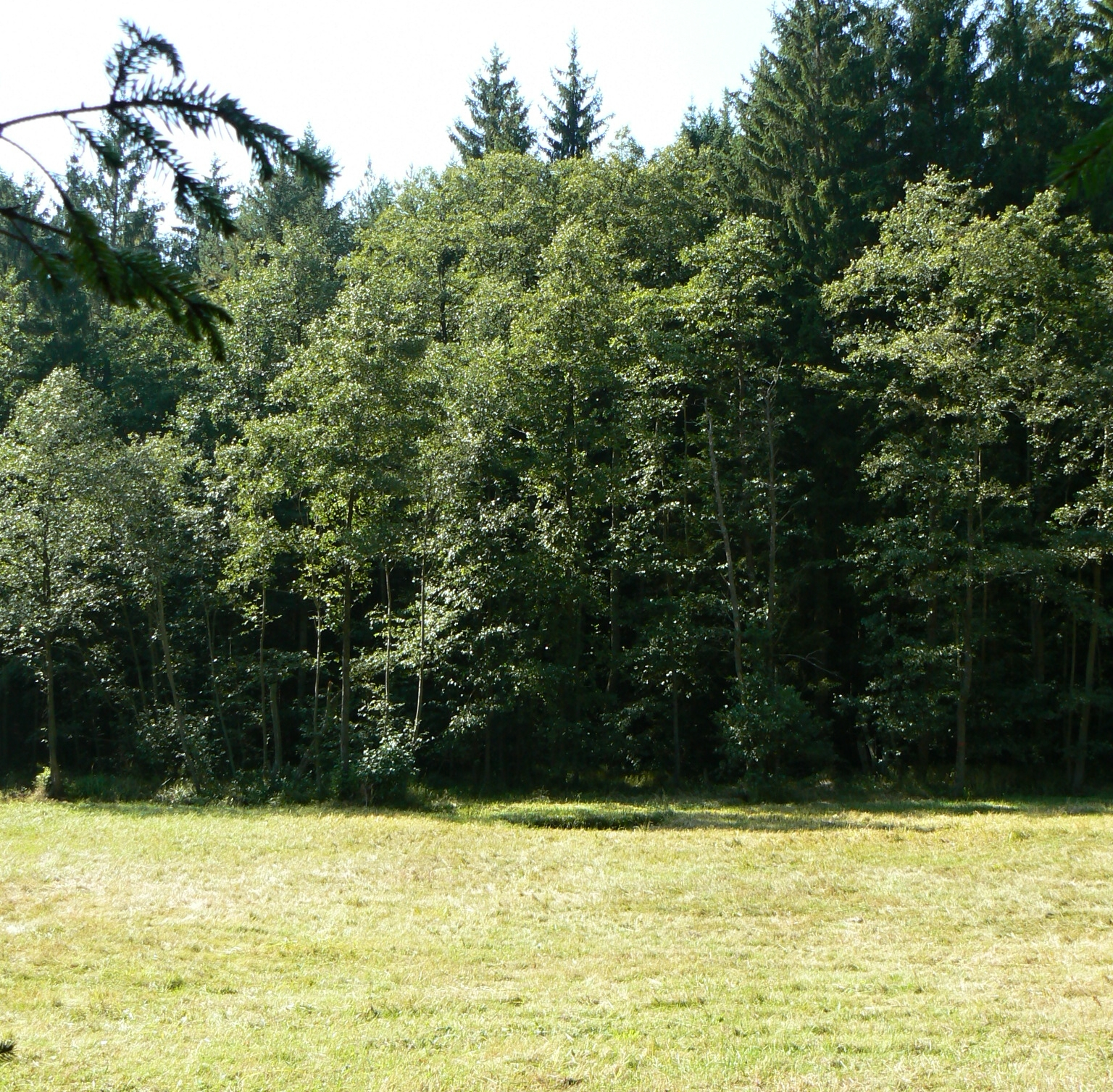 Informations about natural monument Mrátkova louka near village Bory in Žďár nad Sázavou District